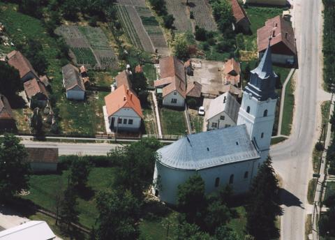 Gulács, Hungary, aerialphotography This is a photo of a monument in Hungary, Identifier: 8242